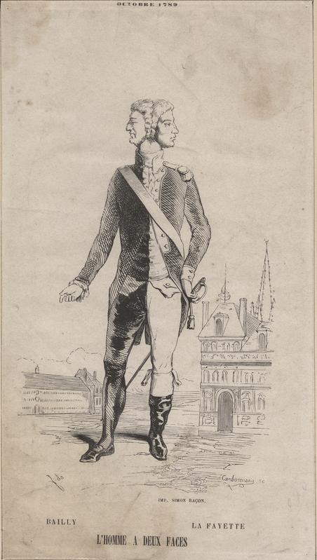 L'holmes a deux faces" is a caricatural work that represents 1st Mayor of Paris Bailly and National Guard Commander-in-Chief Lafayette.